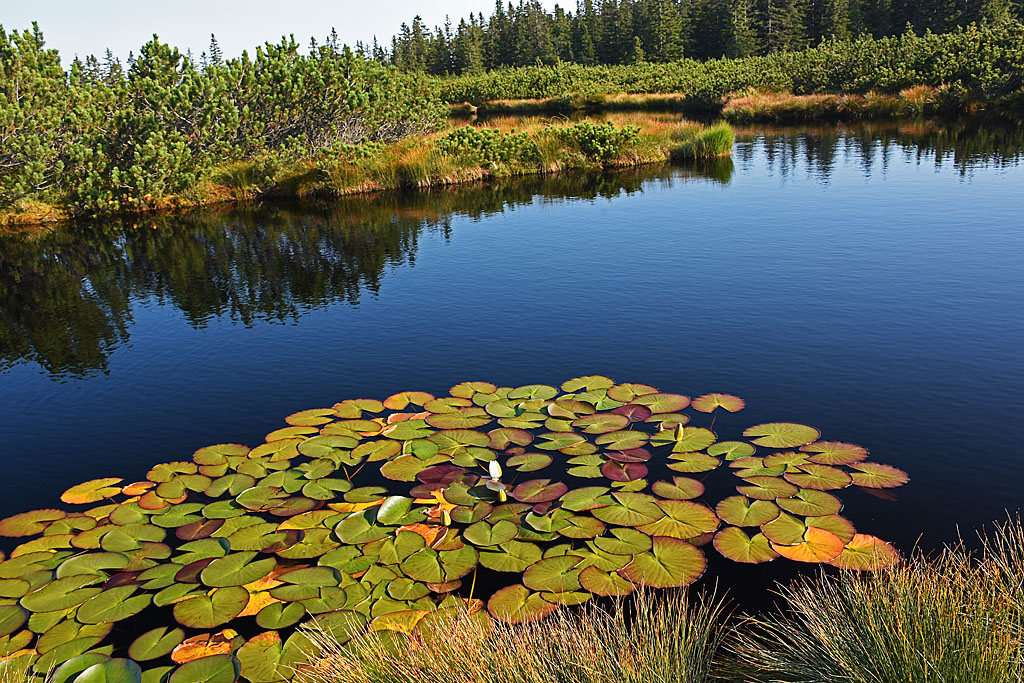 Lovrenška jezera, one of bigger ponds.